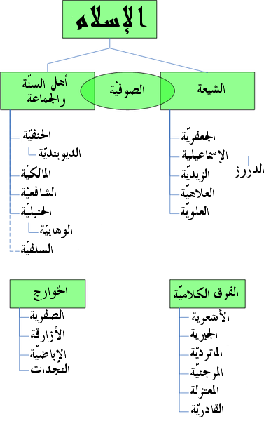 Diagram of the divisions, sects, schools, and traditions within Islam, as described at Divisions of Islam in Arabic.